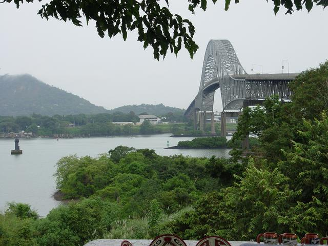 The Bridge of the Americas (originally known as the Thatcher Ferry Bridge) is a road bridge in Panama, which spans the Pacific entrance to the Panama Canal; built in 1962.